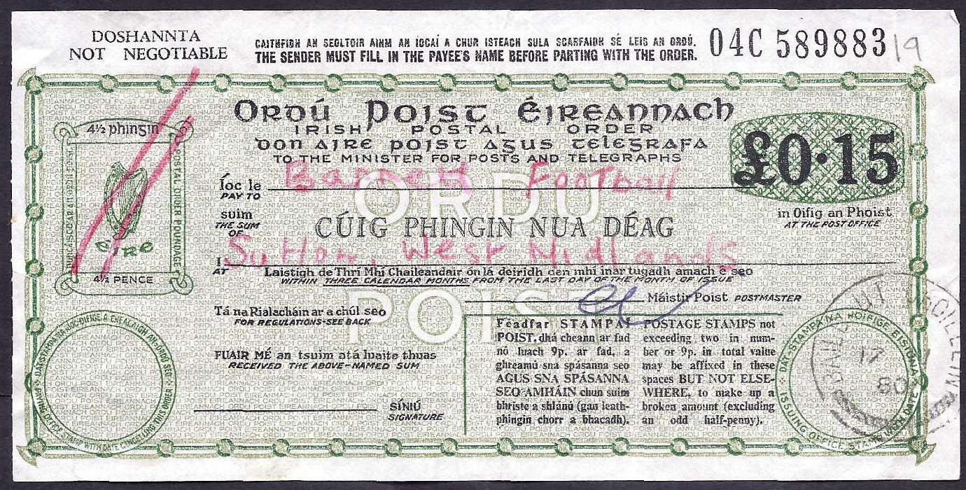 1st decimal issue Irish Postal Order used in 1980 - inscribed both 4 1/2 pence (pre-decimal but crossed out) and 15p (decimal equivalent) denomination